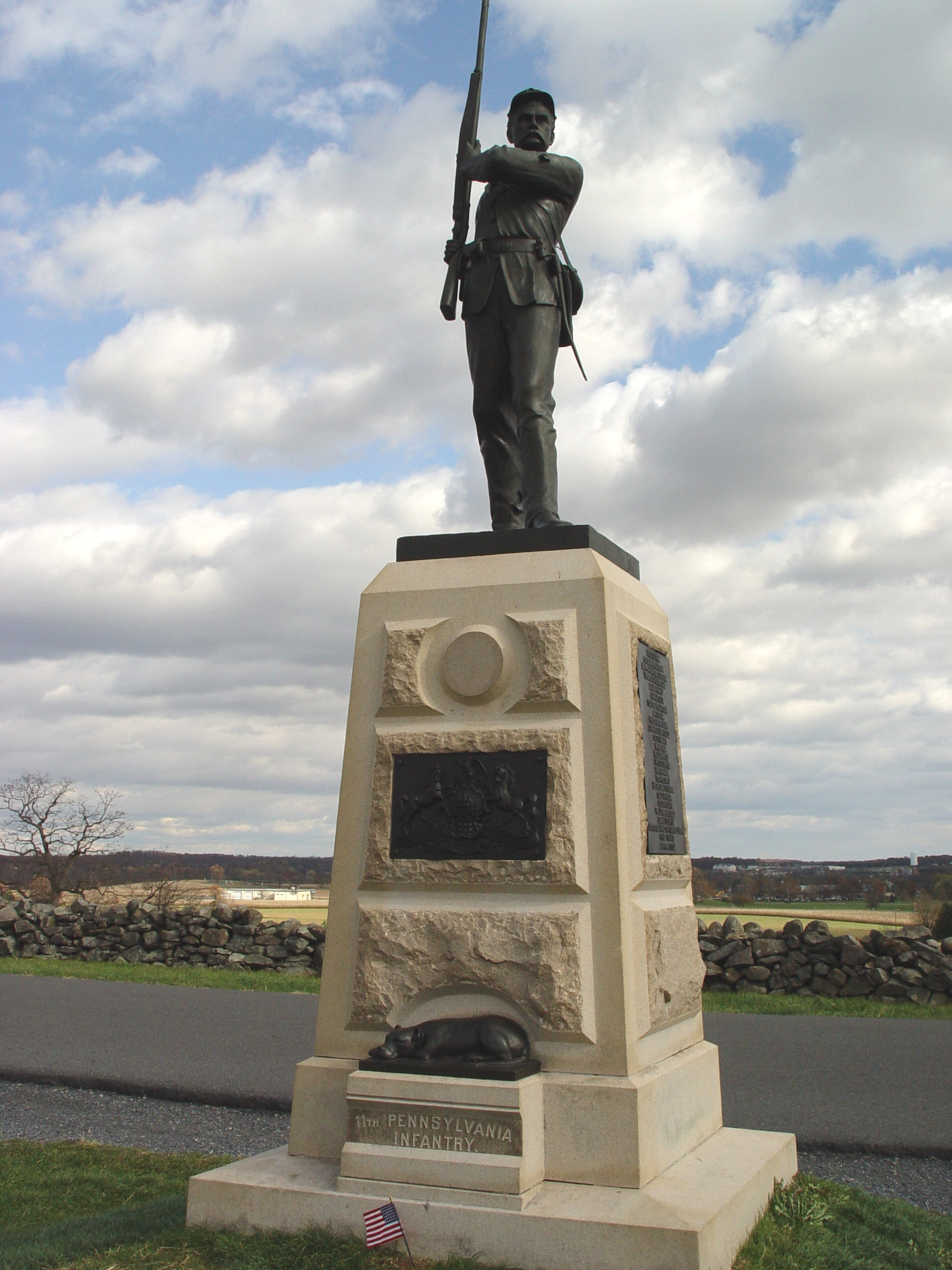 11th Penn. V.I. Monument, Gettysburg, PA, USA